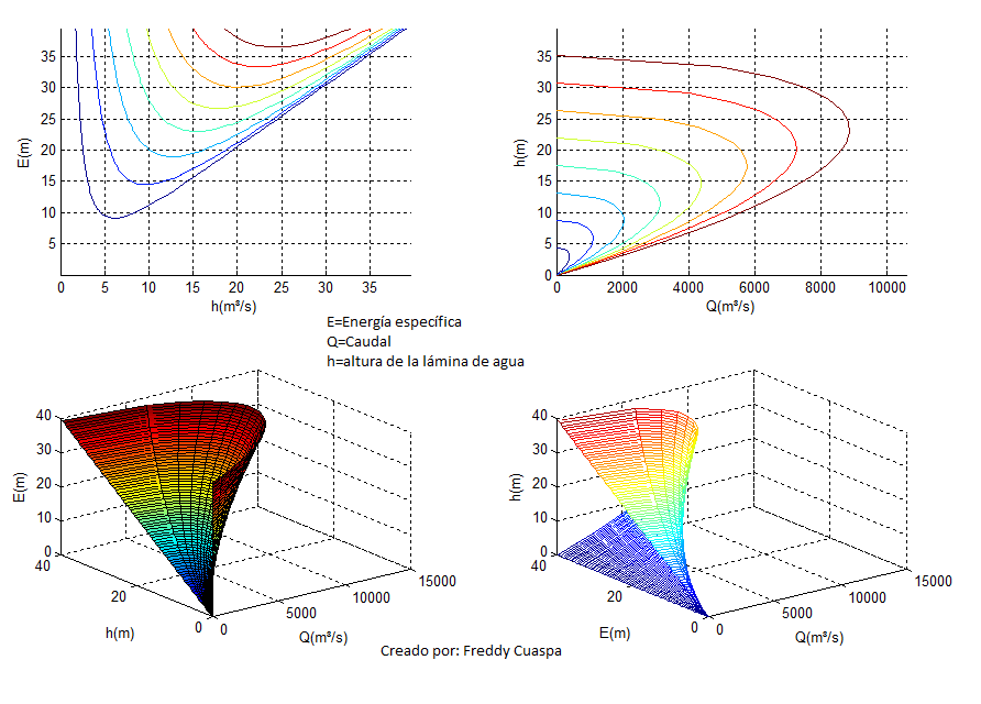 Energía Específica